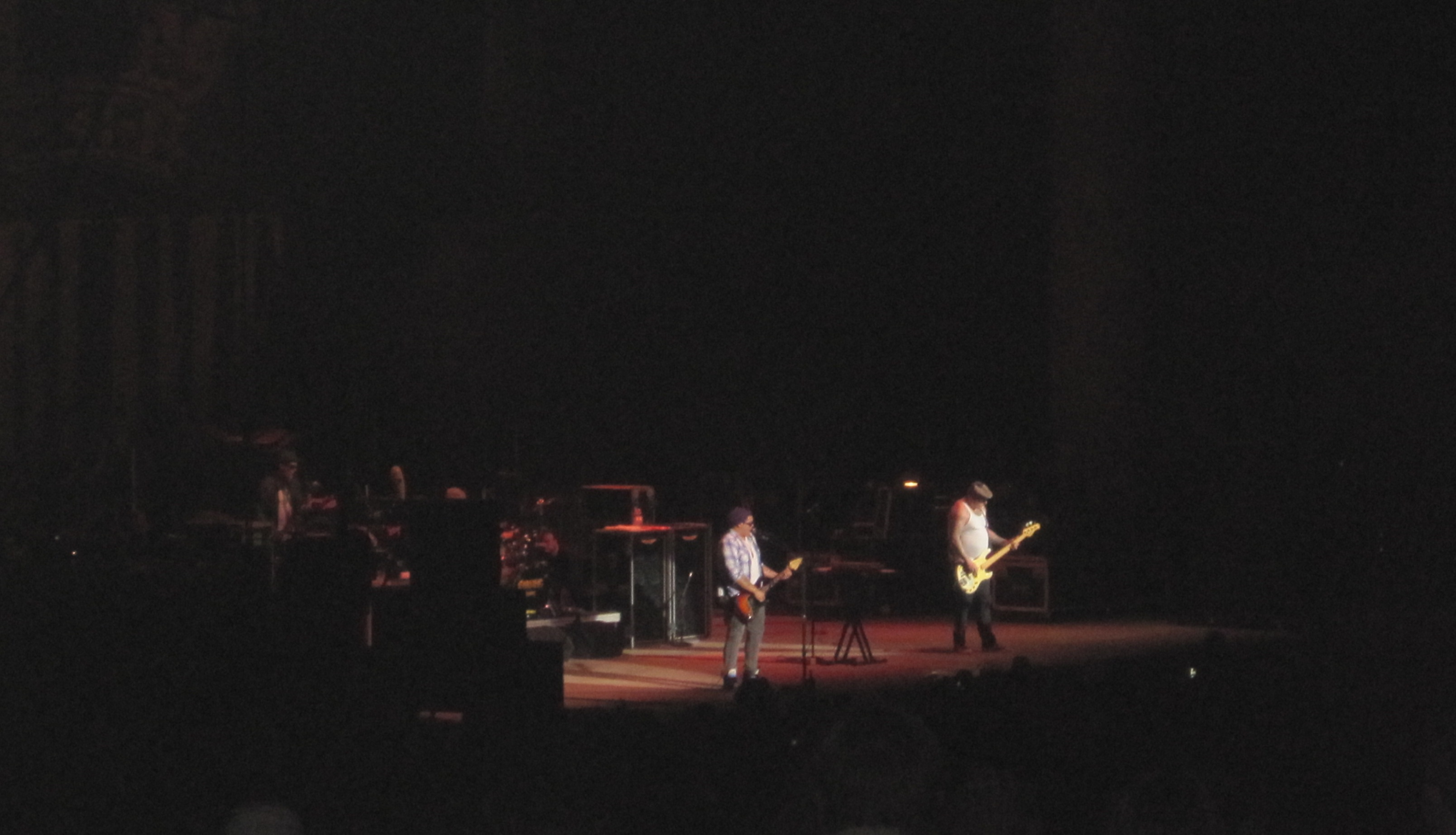 Sublime with Rome performing at X-Fest 2010 at the Verizon Wireless Music Center in Noblesville, IN on September 11, 2010.